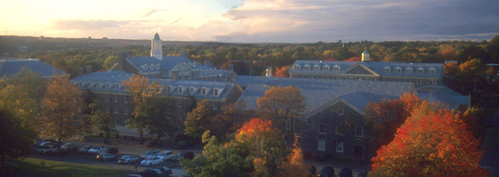 This is the University of King's College in Halifax Nova Scotia in Autumn with Castine Way in the foreground